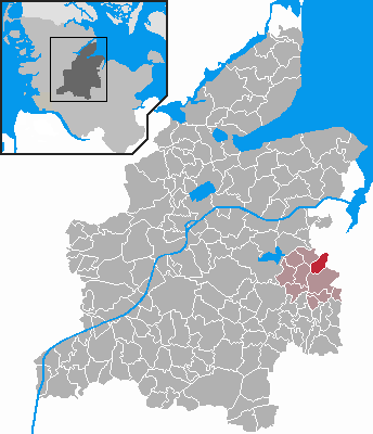 Locator maps of municipalities in Schleswig-Holstein - District Rendsburg-Eckernförde